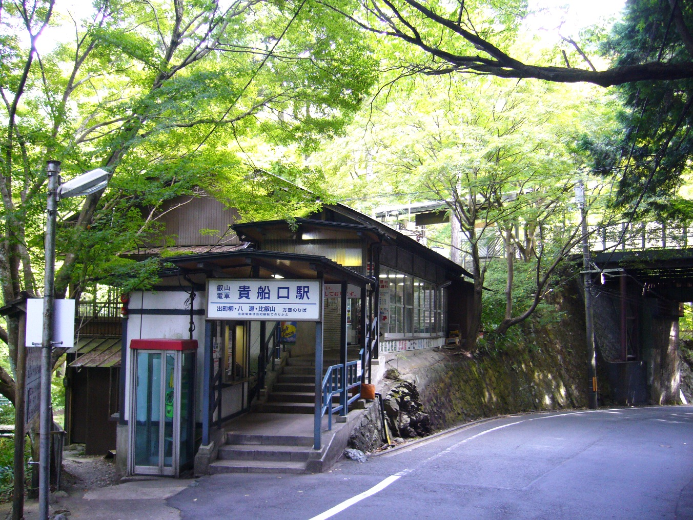 The entrance of Kibuneguchi Station on the Eizan Electric Railway Kurama Line. The road in the foreground is Kyoto Prefectural Route 361 (Kamikuroda-Kibune Route). Just inside the entrance is a ticket vending machine on the left side and the passage in front of a shop leading to the platform upstairs.